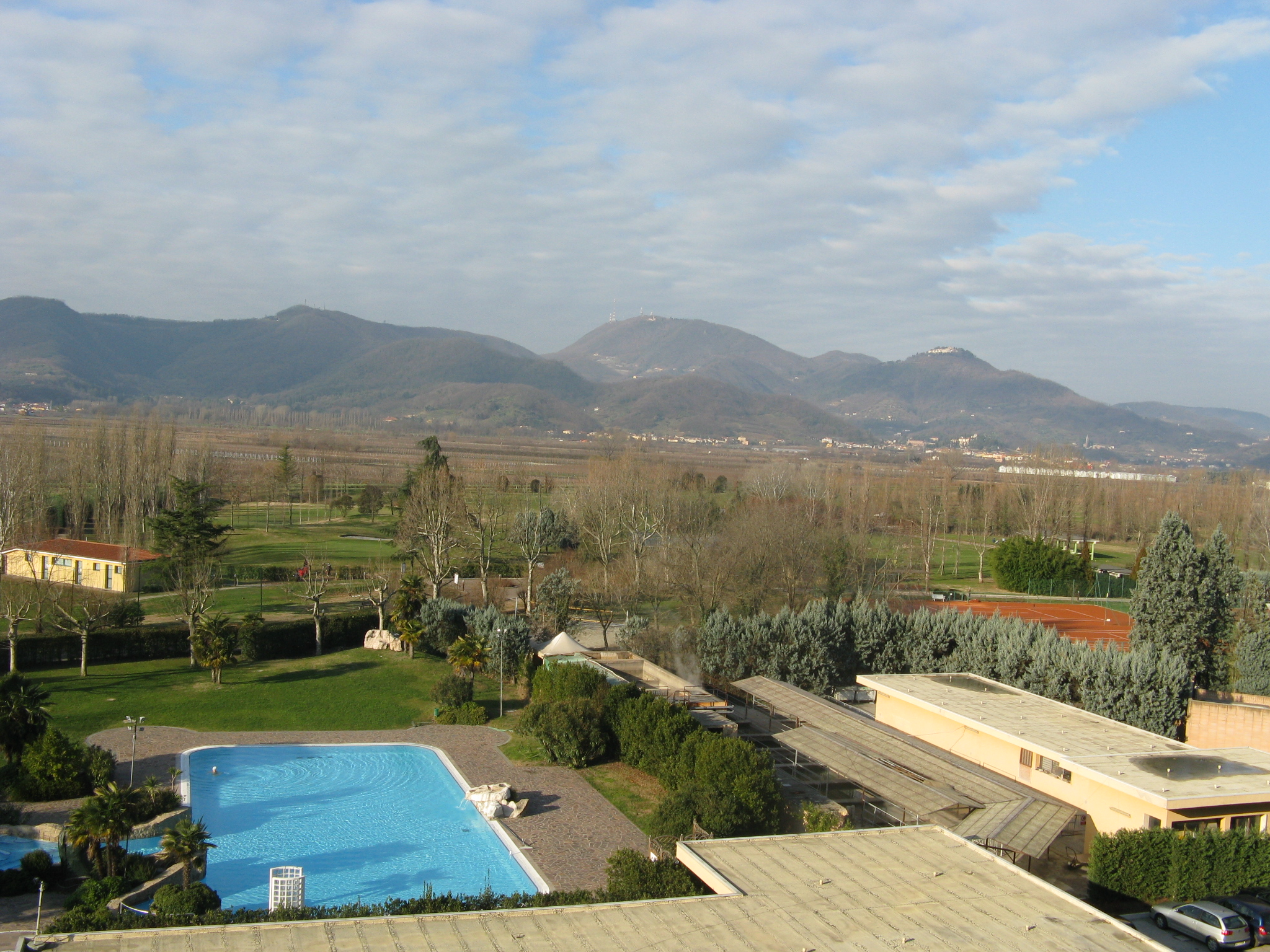 Galzignano Terme